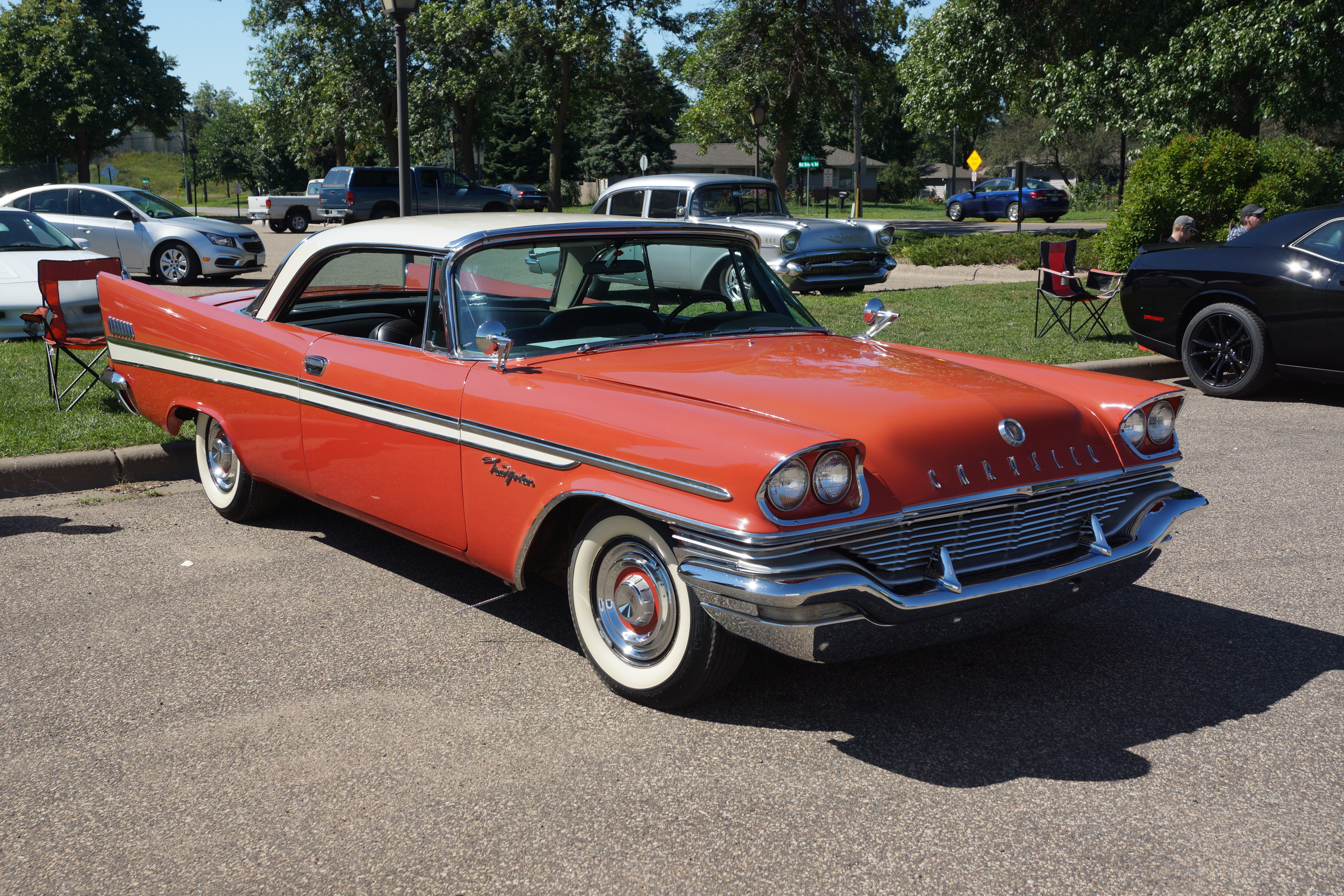 Walter P. Chrysler Club 10,000 Lakes Region 18th Annual Car Show Wagner's Drive-In Brooklyn Park, Minnesota Click here for more car pictures at my Flickr site.